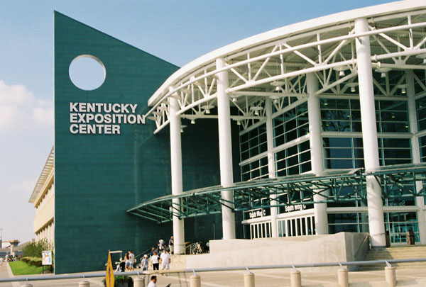 I snapped this photo of the Kentucky Exposition Center.